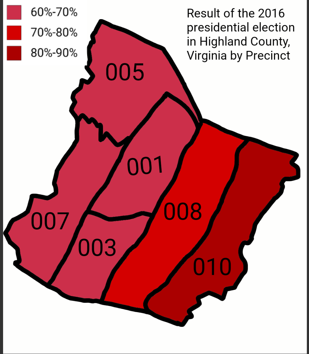 Map showing the results of the 2016 presidential election in Highland County, Virginia by Precinct.